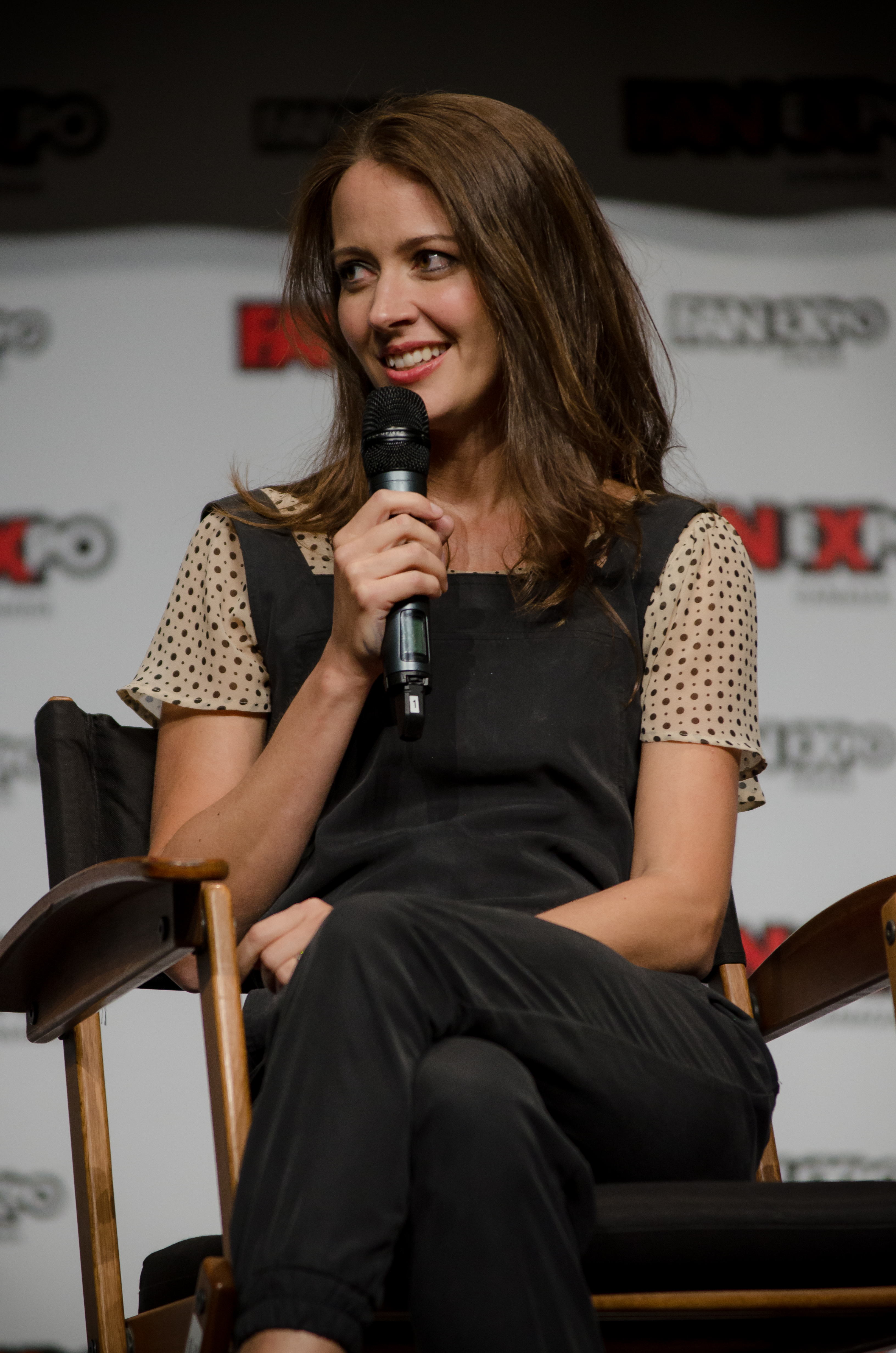 Amy Acker at Fan Expo 2015